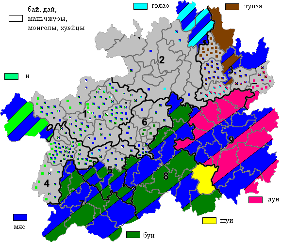 Autonomy territories in Guizhou